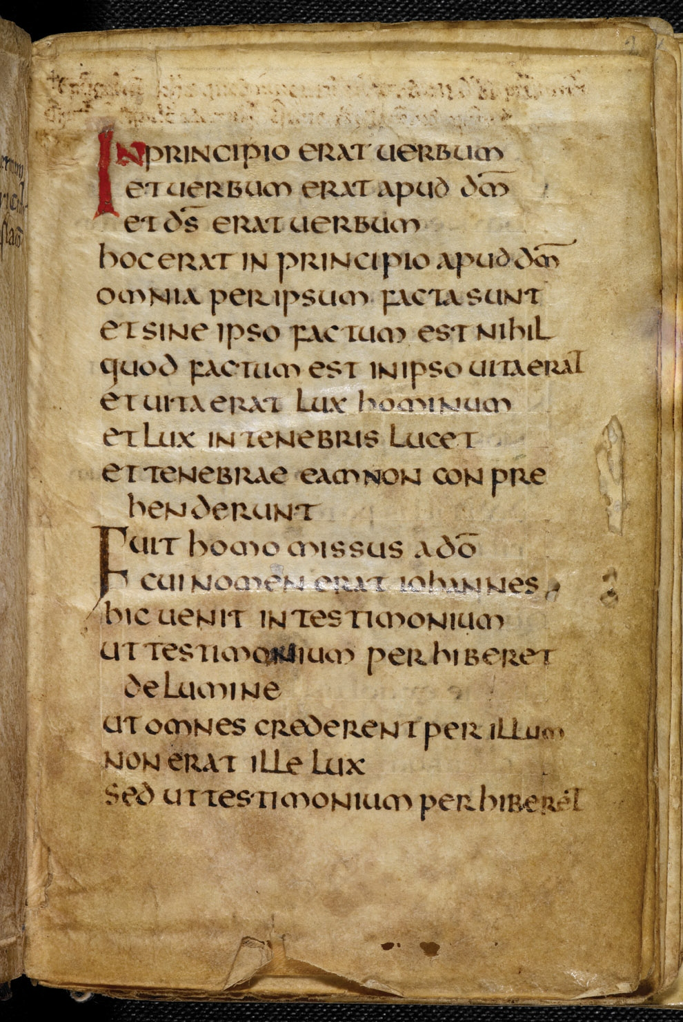 Start of the Gospel of St John in the St cuthbert or Stonyhurst Gospel. Northumbrian, c. 698 British Library